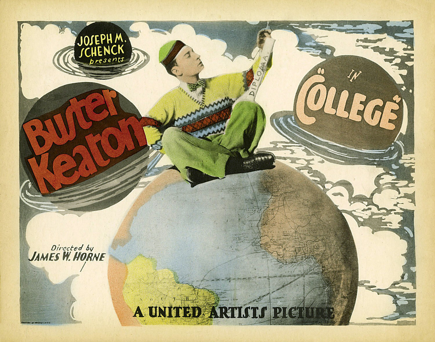 Poster for the American comedy film College (1927). The item has no copyright markings on it as can be seen in the links above. At lower left is Country of origin USA.